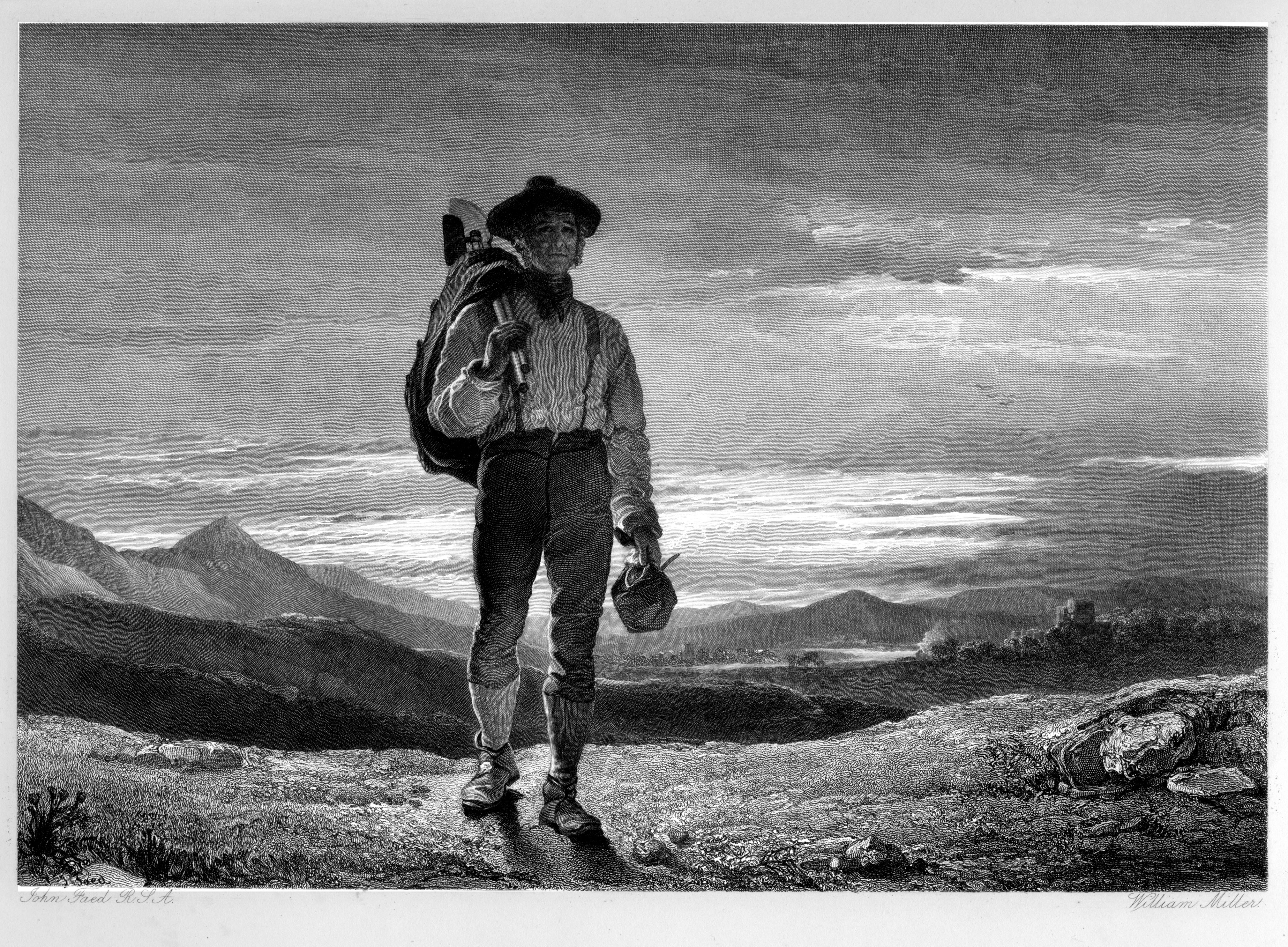 "The toil-worn cottar frae his labour goes" engraving by William Miller after John Faed, from The Cotter's Saturday Night, Royal Association for the Promotion of the Fine Arts in Scotland, 1853